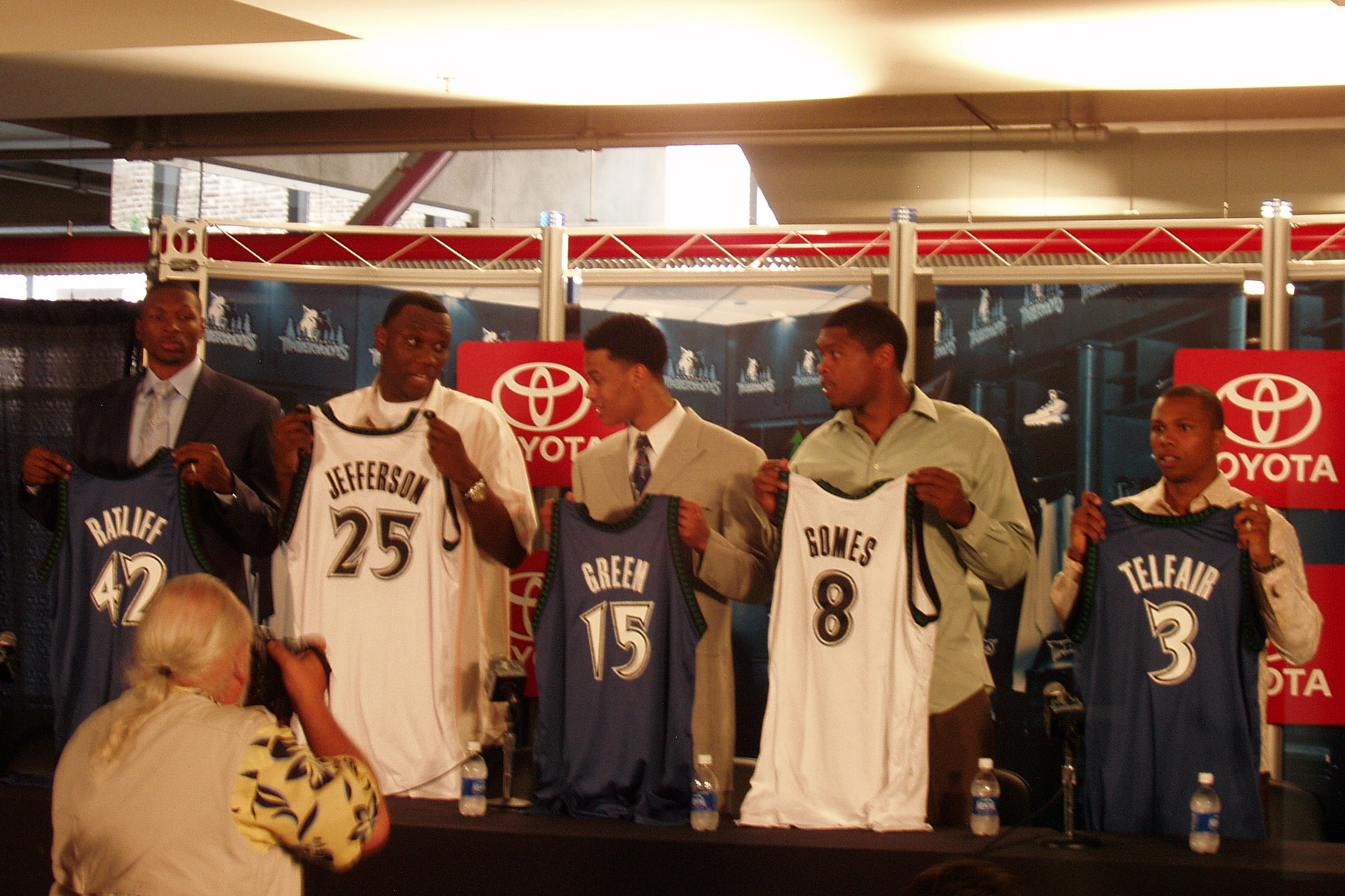 Theo Ratliff, Al Jefferson, Gerald Green, Ryan Gomes, and Sebastian Telfair, who were traded from the Boston Celtics to the Minnesota Timberwolves in exchange for Kevin Garnett, are presented to the Minneapolis media.